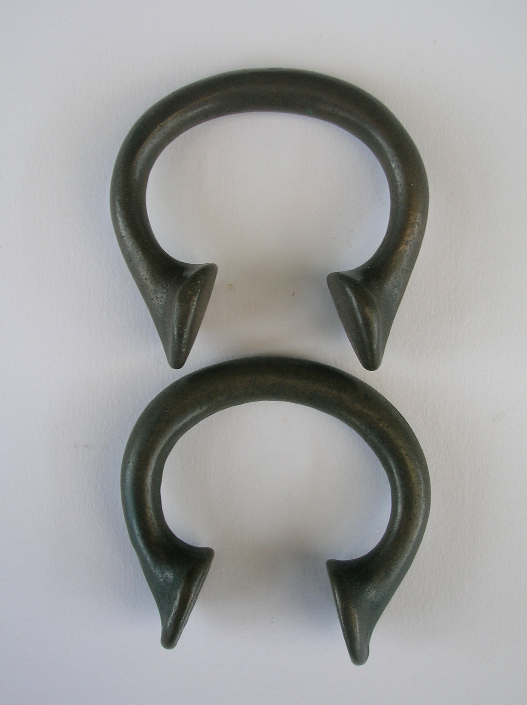 Two very similar Okhapo variety of Manillas from Nigeria. From Africa